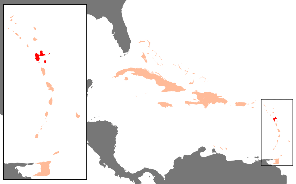 Position of Guadeloupe in the Caribbean